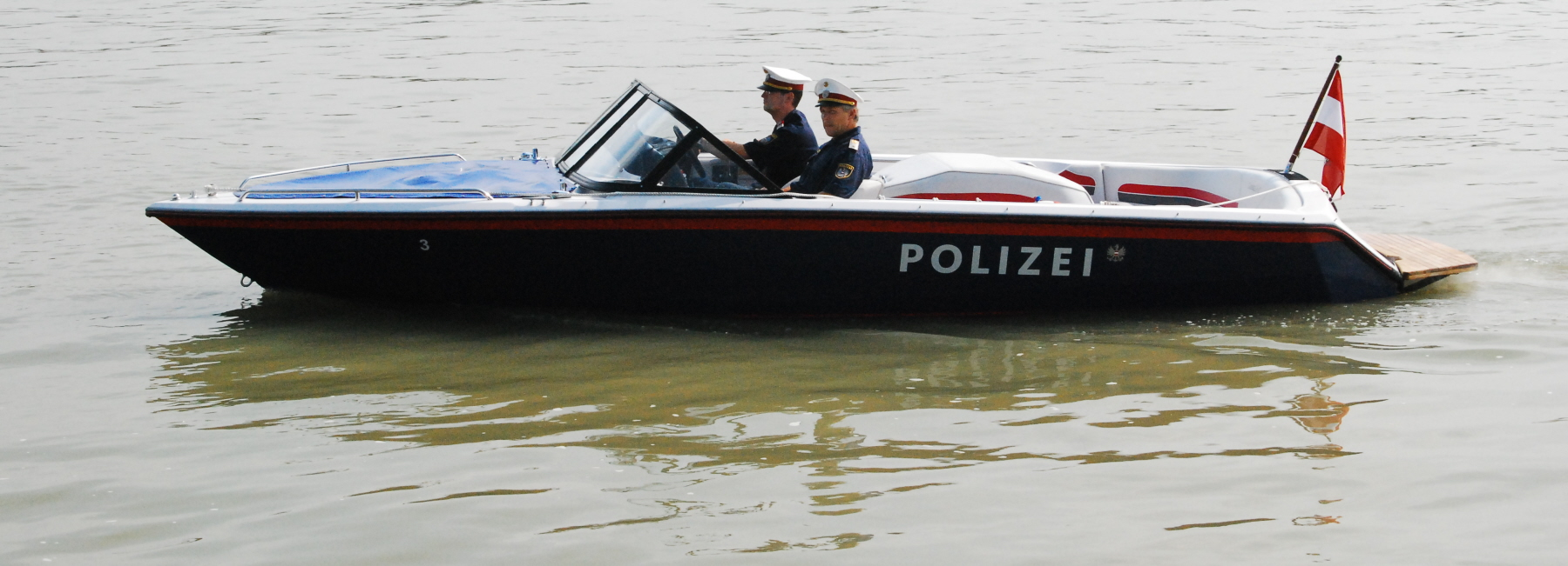 Austria, Vienna, Danube